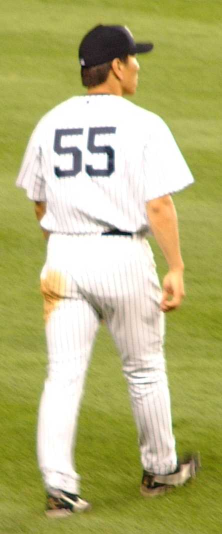 Hideki Matsui of the Yankees